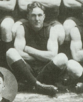 Photograph of Les Thomas in 1928